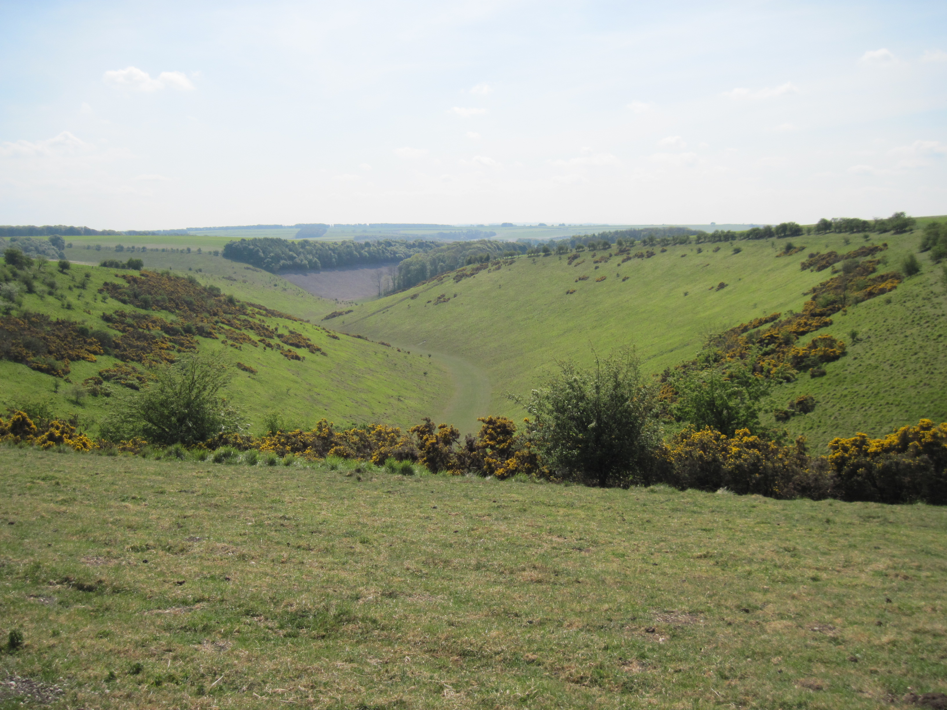 Well Dale, Warter, East Riding of Yorkshire, England.